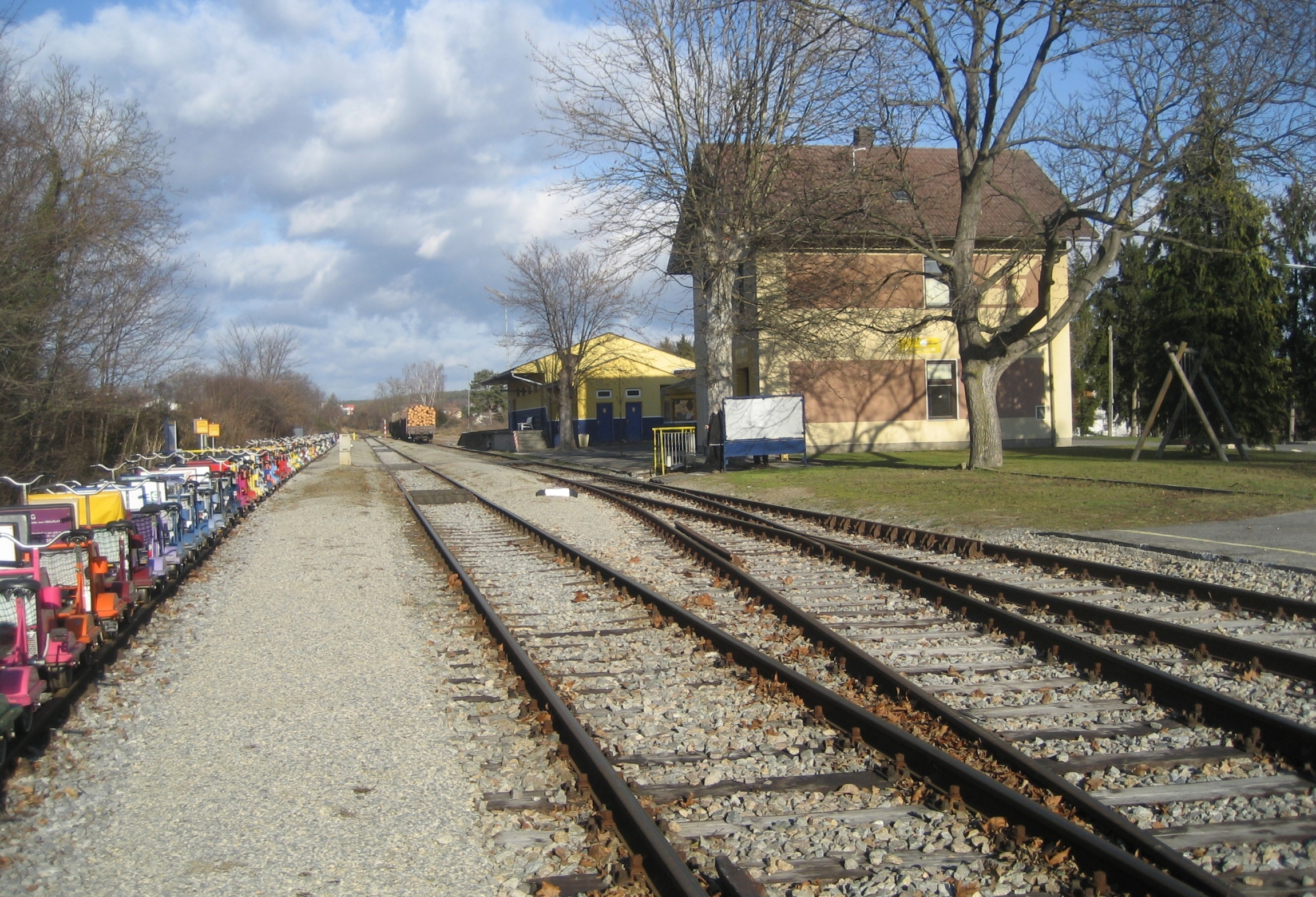 Oberpullendorf train station in Burgenland, Austria